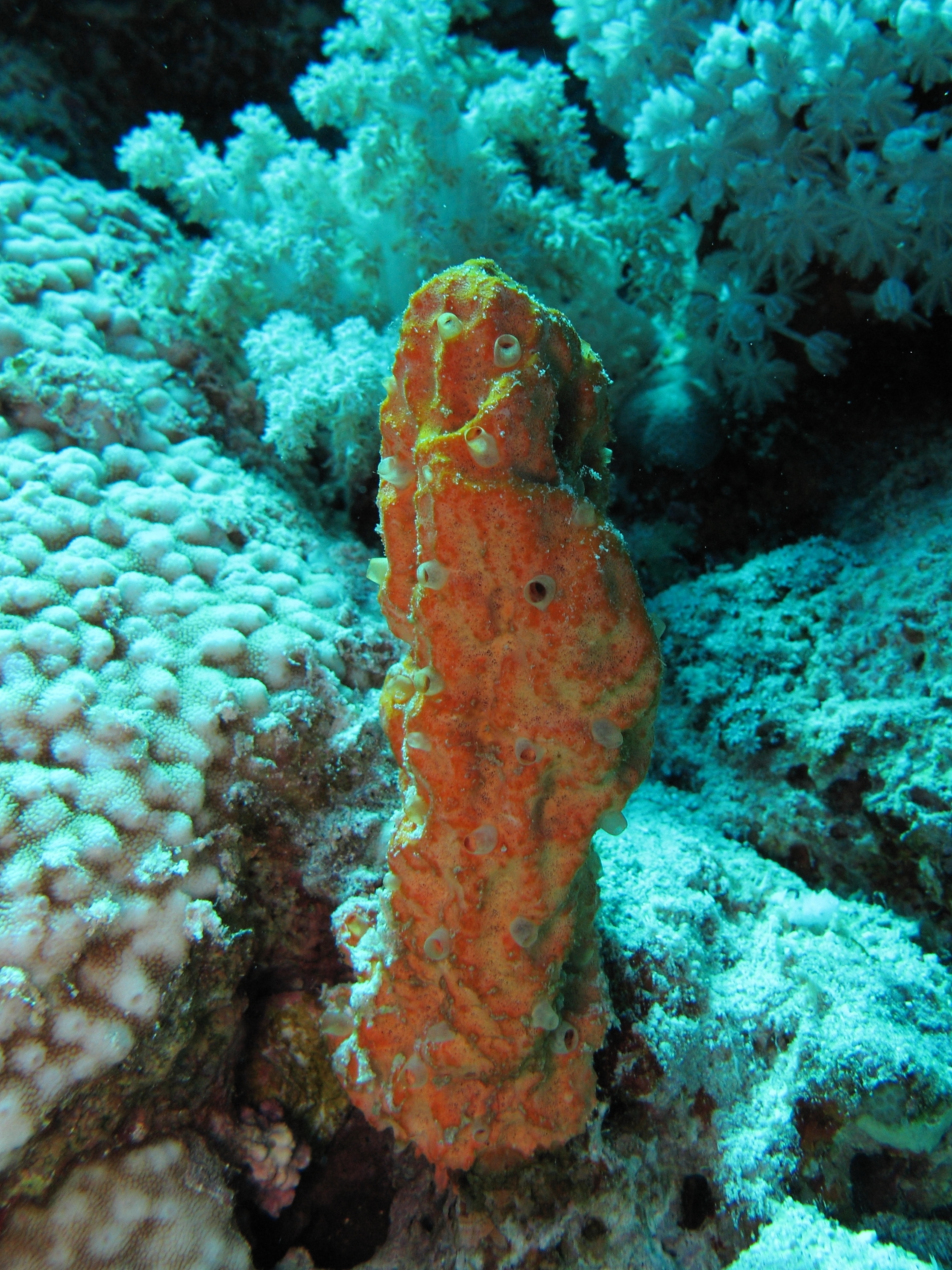 Stylissa carteri sponge at Gota Kebir (Red Sea, Egypt)